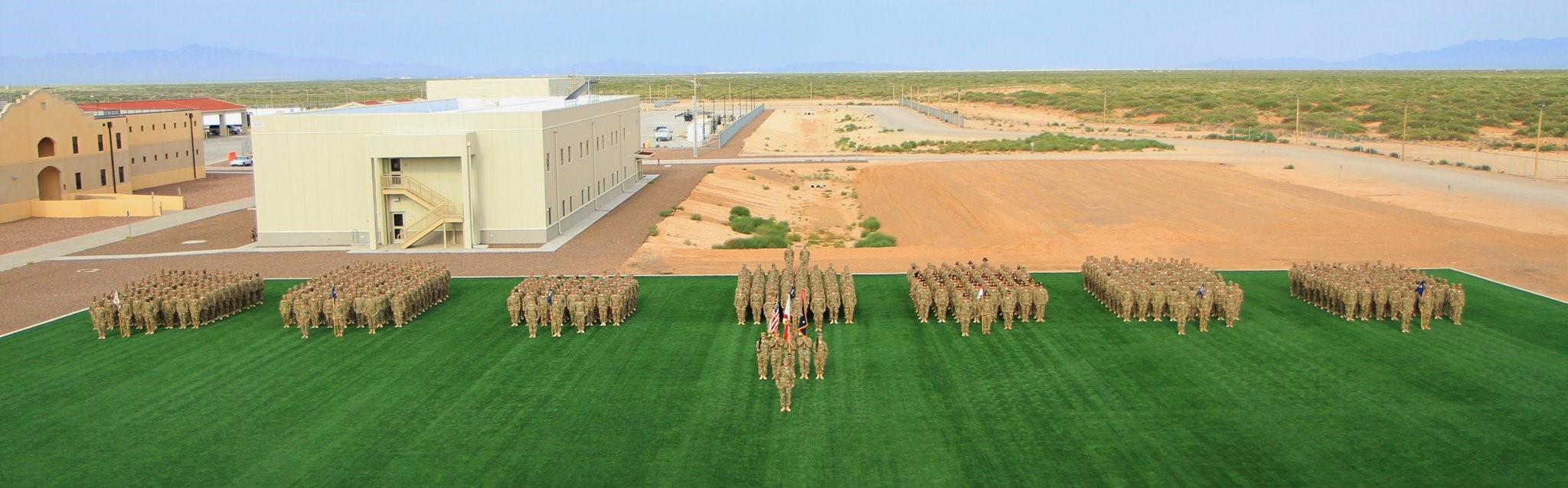 2d Battalion "Seminoles", 124th Infantry at Camp McGregor, New Mexico just before deployment to Djibouti.